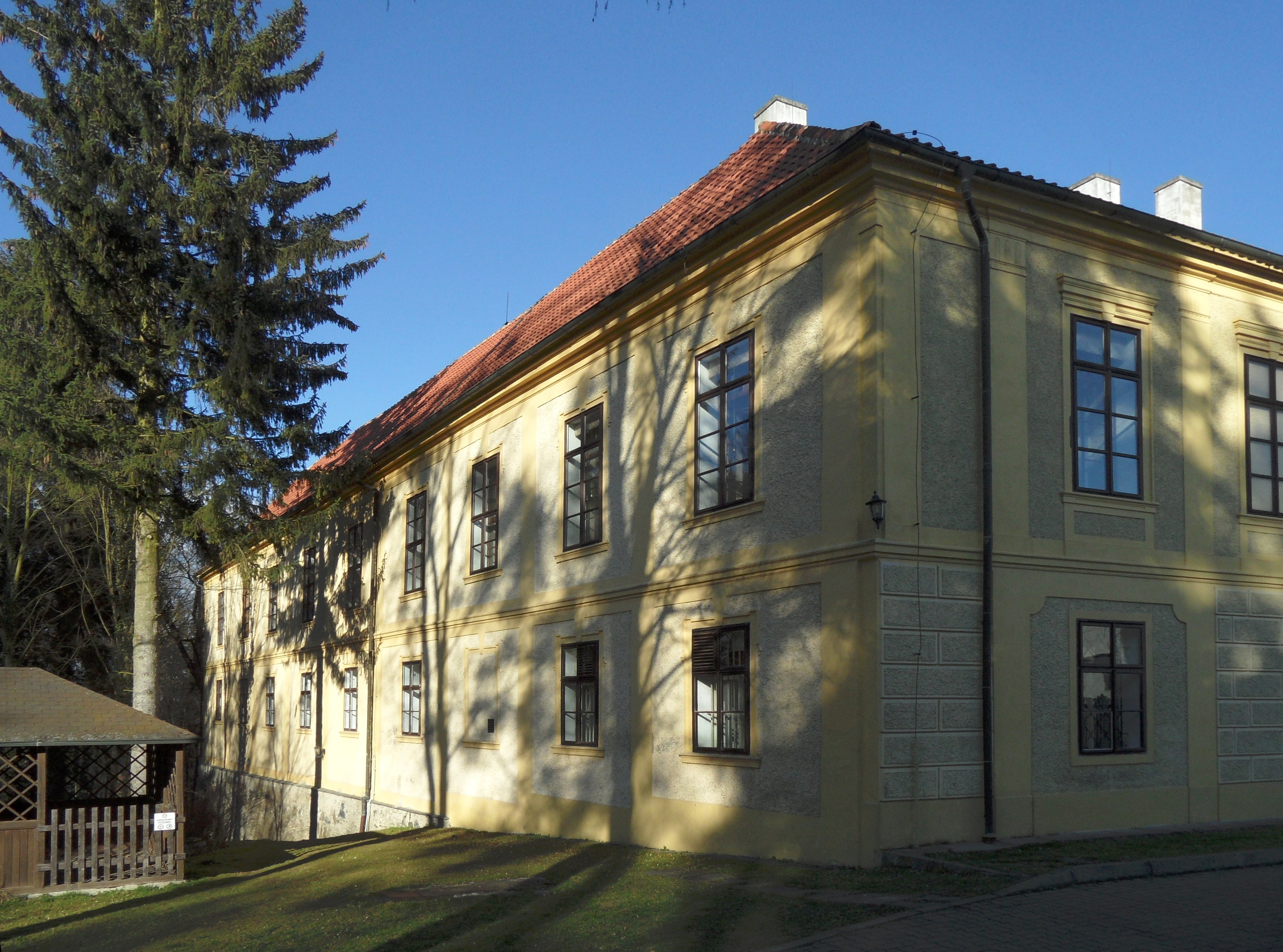 Hostačov (Skryje) B. Chateau Hostačov: View from South-West, Havlíčkův Brod District, the Czech Republic.